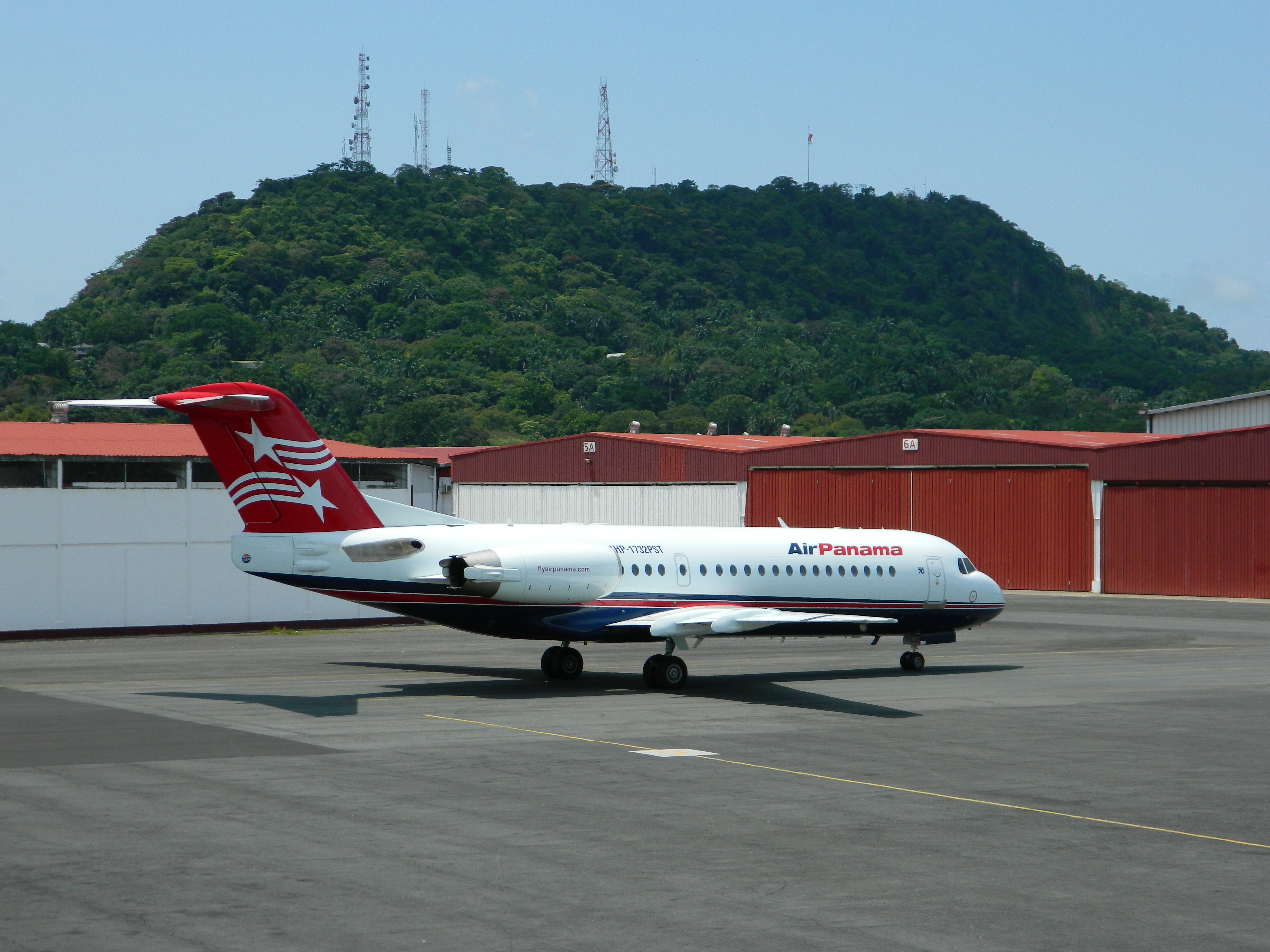 A Fokker 100 aircraft of Air Panama. Photo taken at the Albrook "Marcos A. Gelabert" International Airport in Panama City, Panama.